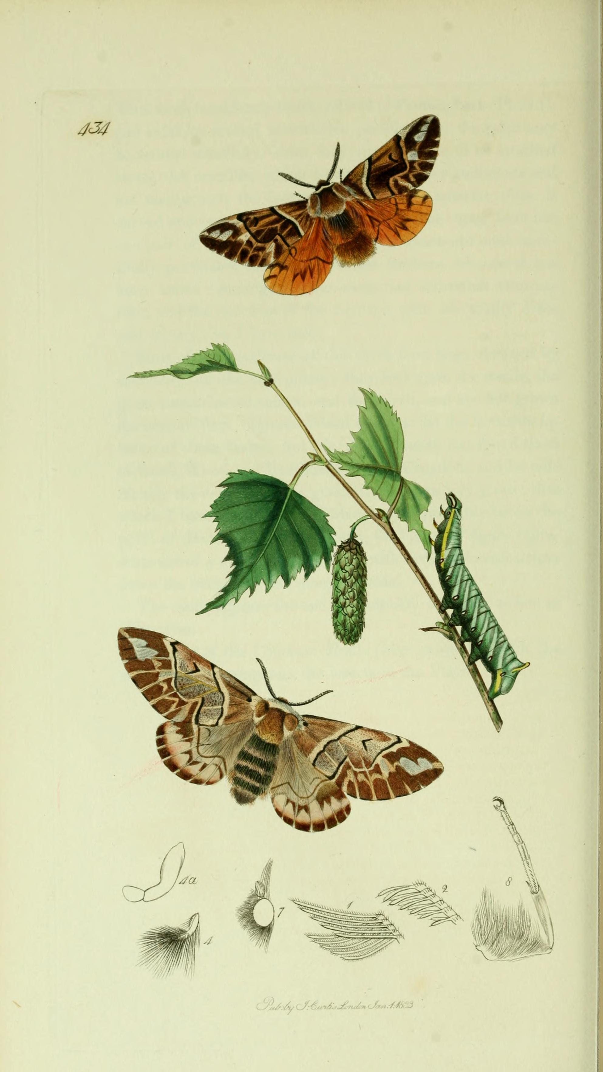 An illustration from British Entomology by John Curtis. Endromis versicolor or Endromis versicolora (Kentish Glory).